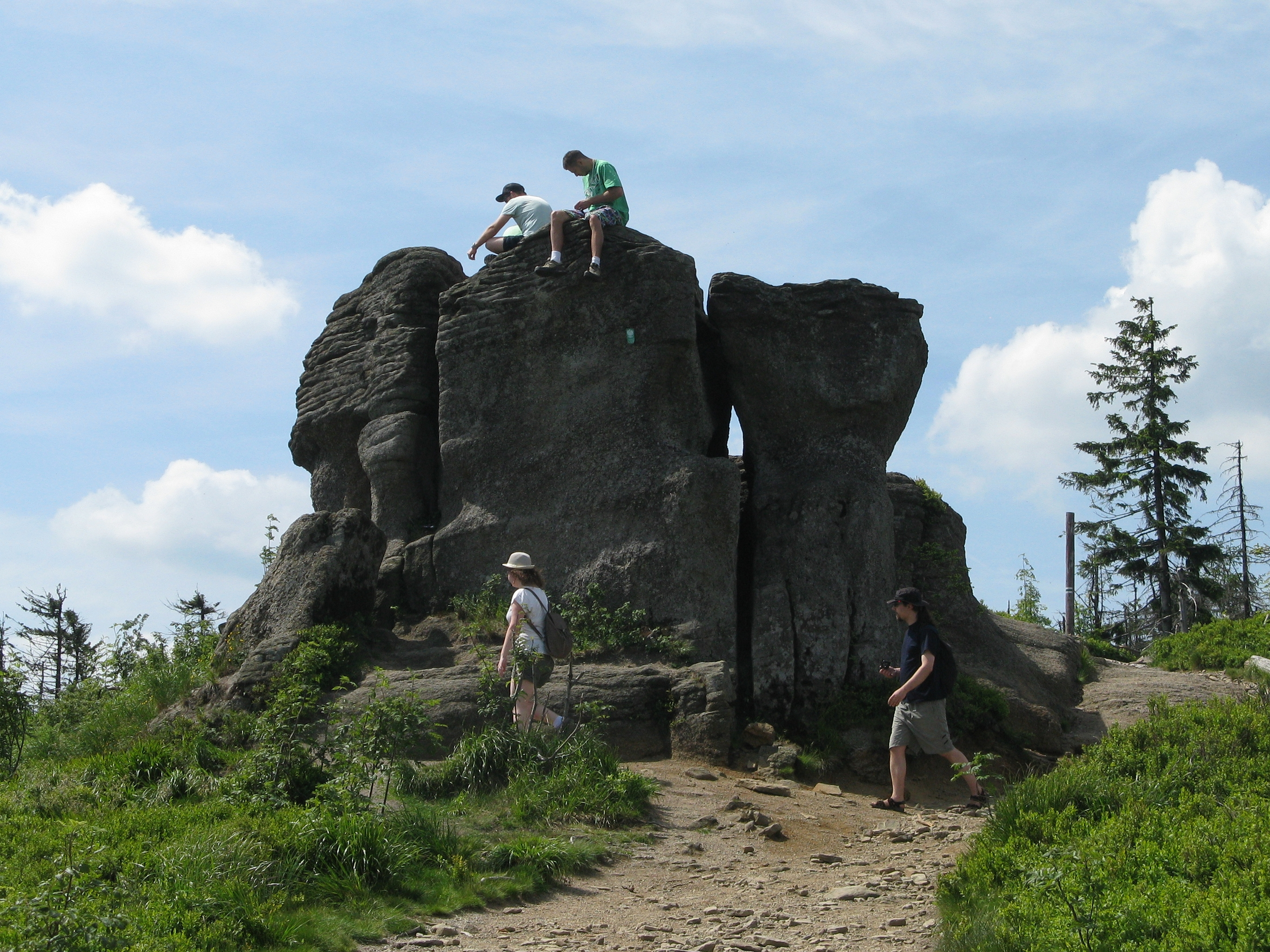 Malinowska Skała rock outcrop (natural monument 0138/38/77) at Malinowska Skała peak, Silesian Beskids.